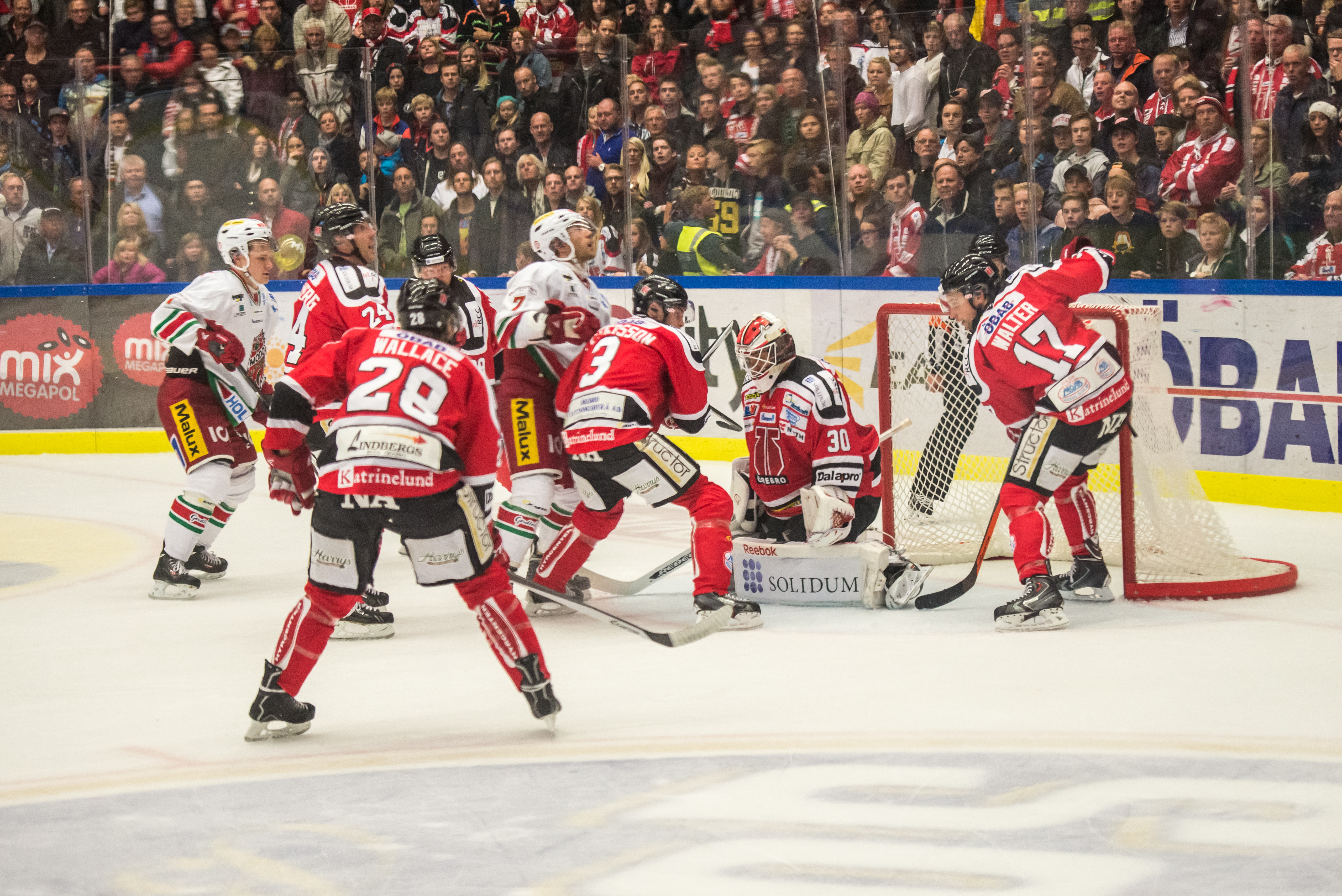 SHL (Swedish Hockey League – Sweden's highest league): Örebro HK vs MODO Hockey in Behrn Arena 2013-10-05.